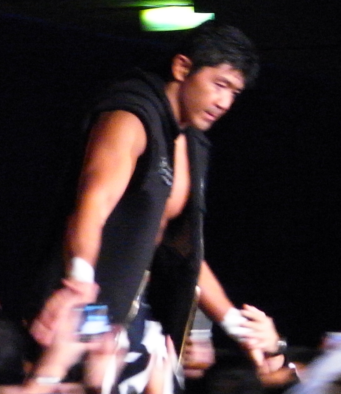 Masakatsu Funaki at AJPW "Pro-Wrestling Love in Taiwan 2010", the National Taiwan University Gymnasium, Taipei.